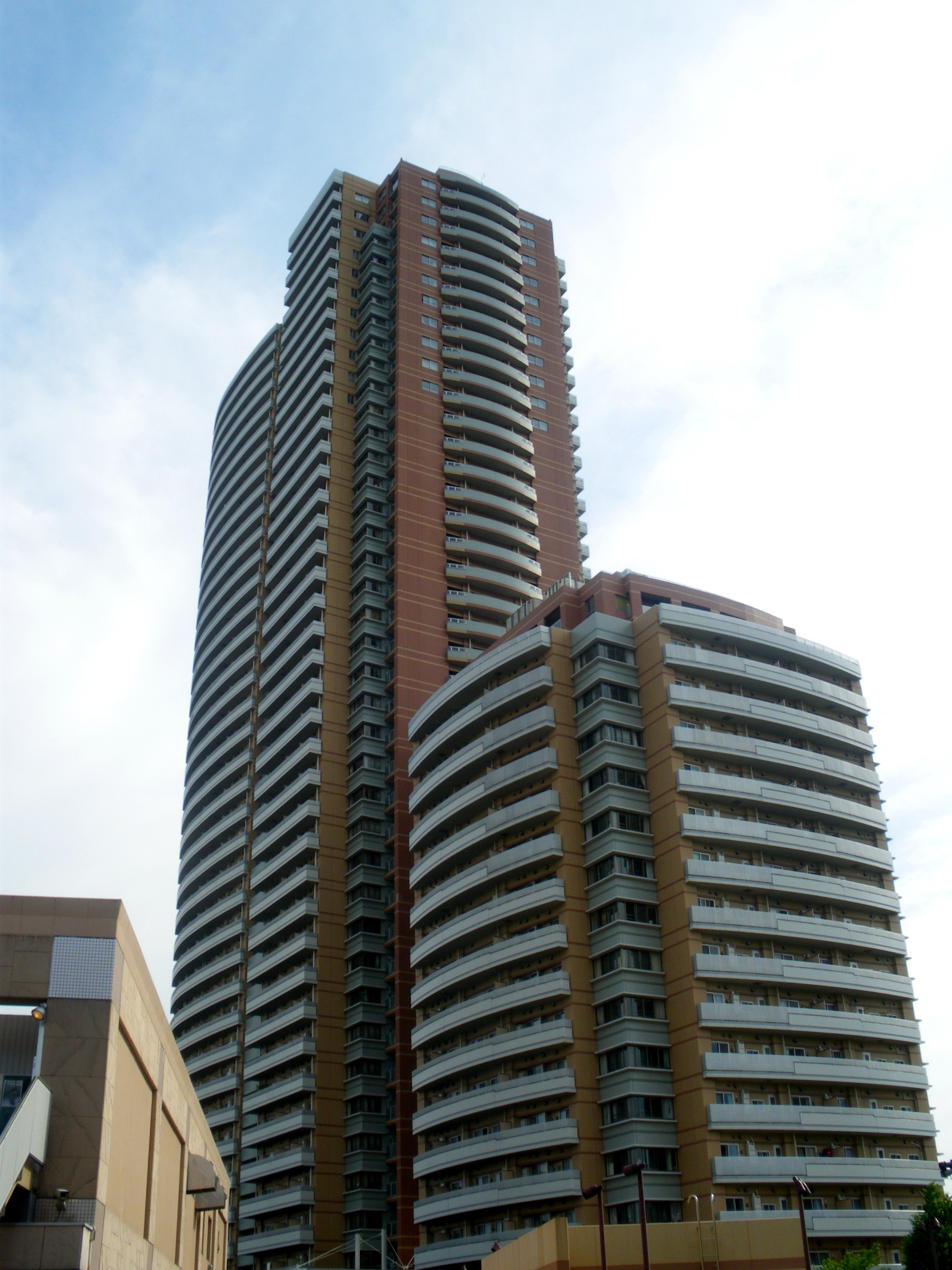 A photo of Kawadacho comfo garden.